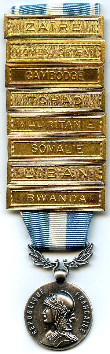 Overseas medal with multiple clasps (France)